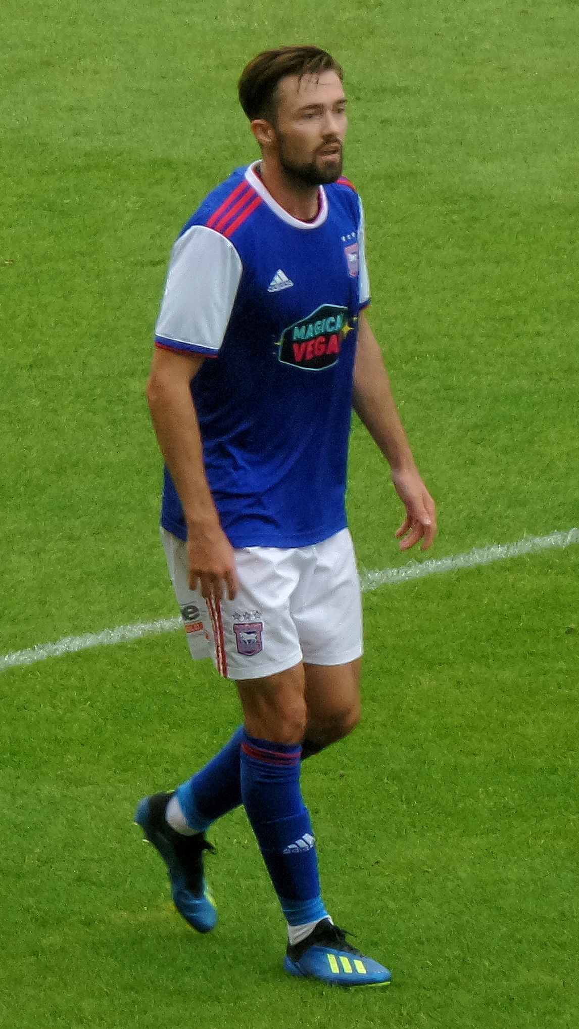 Gwion Edwards playing for Ipswich Town at Barnet on 21 July 2018